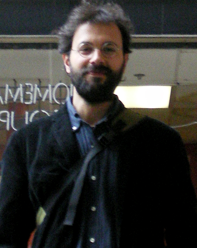 This photo is taken by Wikipedia user Kayaman84 and donated to the Commons.